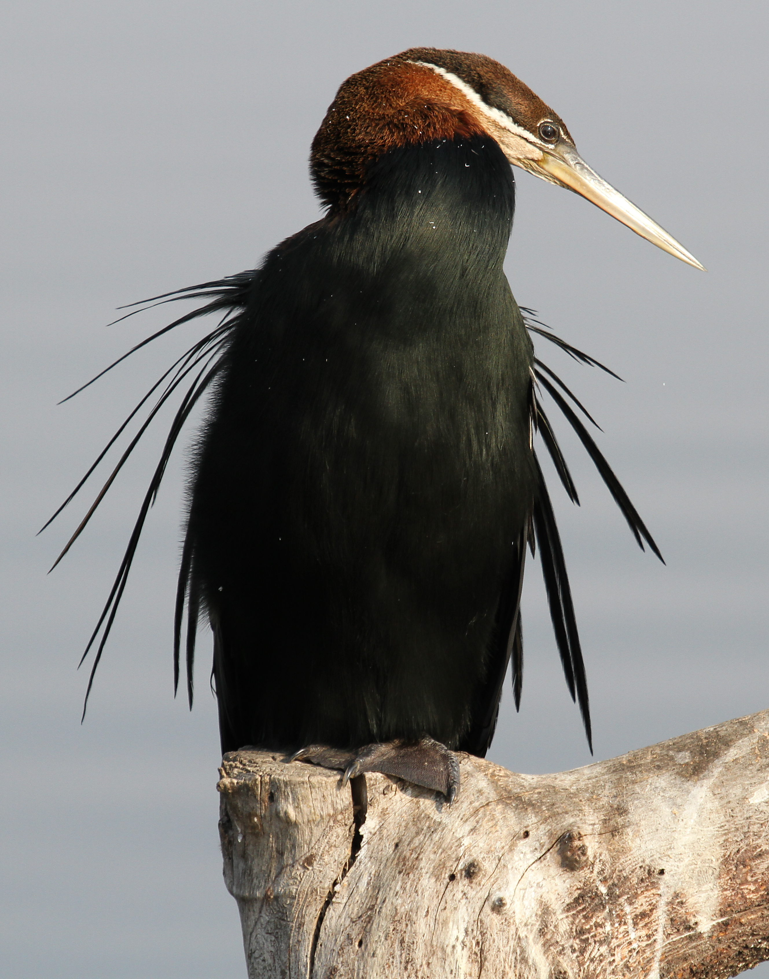 African Darter, Anhinga rufa at Marievale Nature Reserve, Gauteng, South Africa